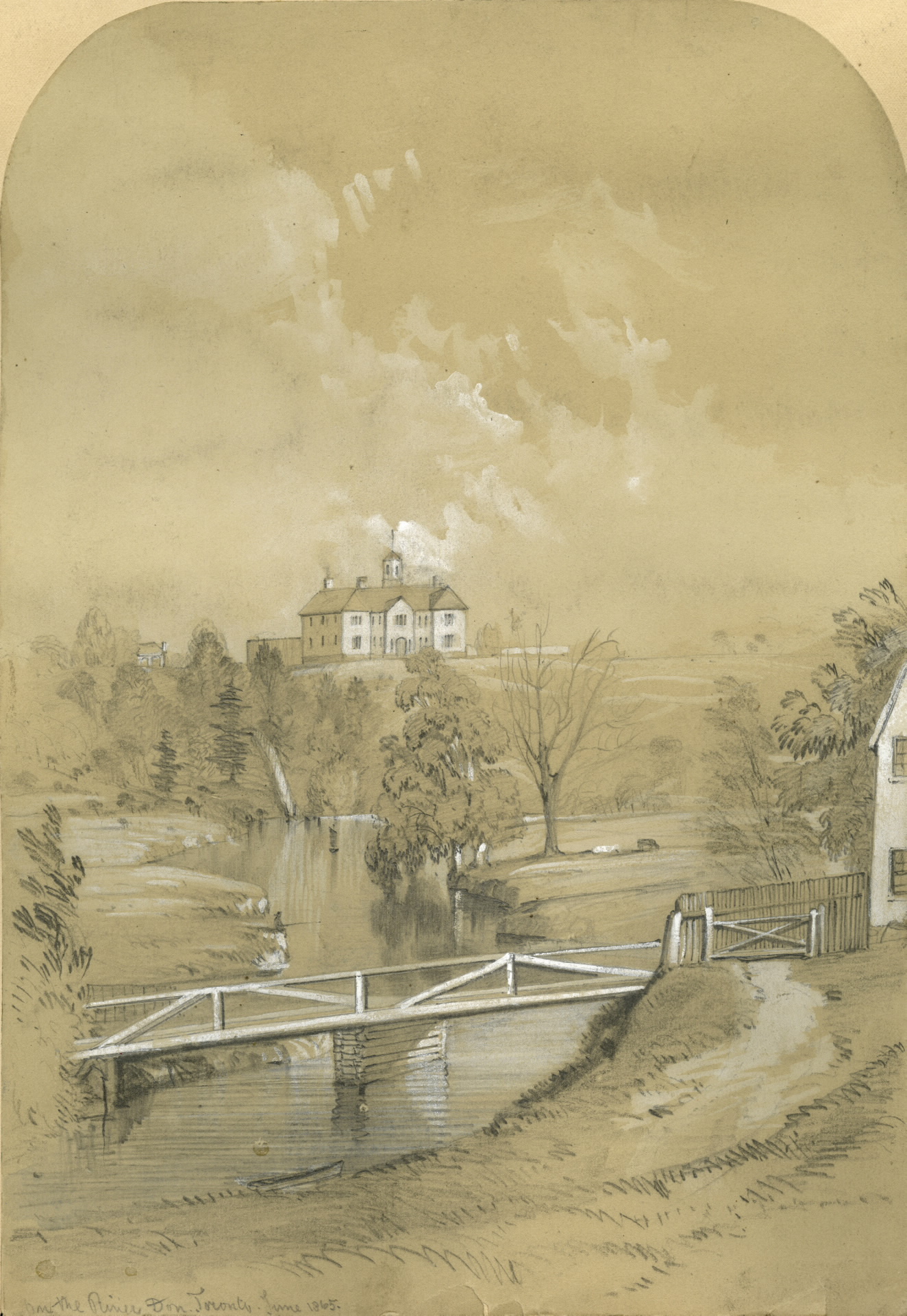 The House of Refuge in Toronto in 1865. Established in 1860 as a home for "vagrants, the dissolute, and for idiots", the building became a smallpox hospital during an epidemic during the 1870s. Demolished in 1894, a new structure called the "Riverdale Isolation Hospital" was built on the site in 1904, an establishment that evolved into the Rivderdale Hospital and later Bridgepoint Health.